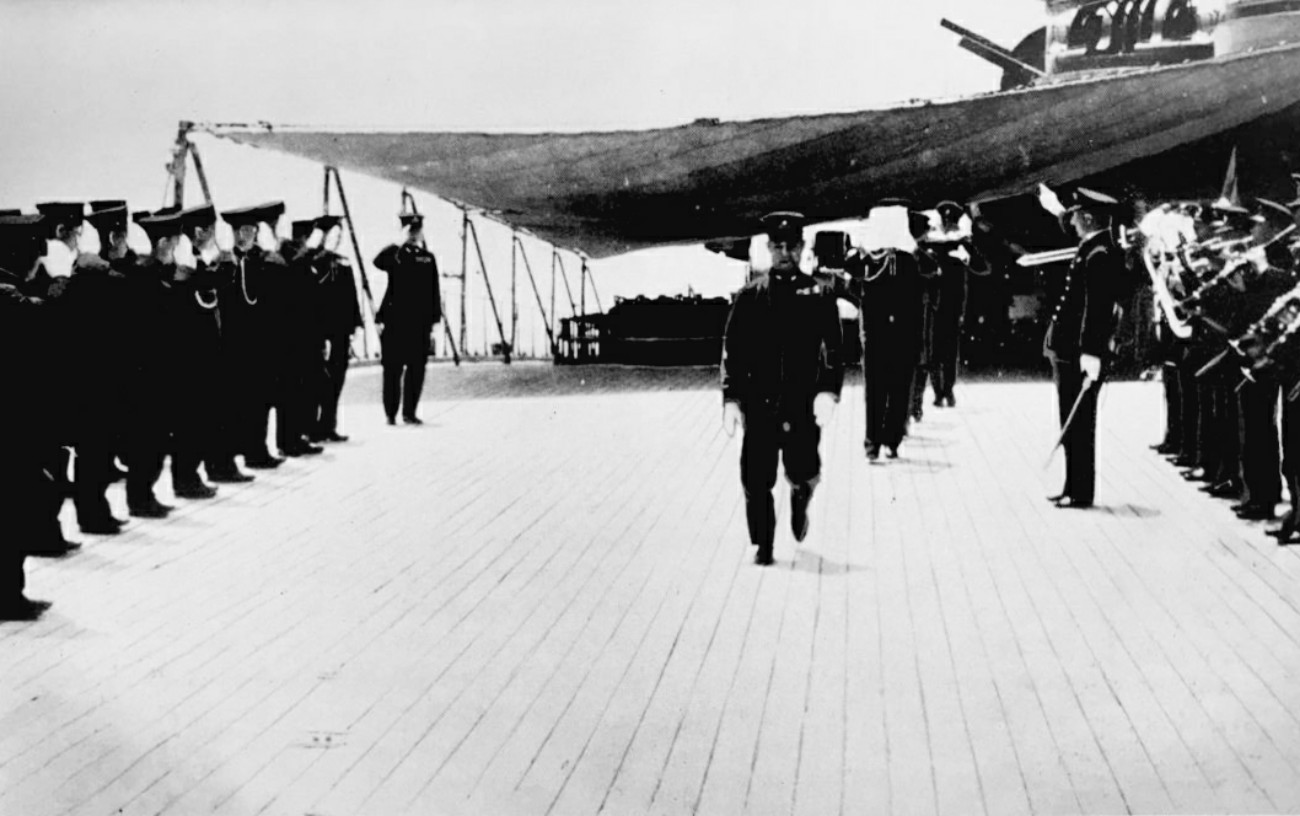 The ashes of Imperial Japanese Navy Admiral Isoroku Yamamoto are carried from the battleship Musashi at Kisarazu, Japan on May 23, 1943.